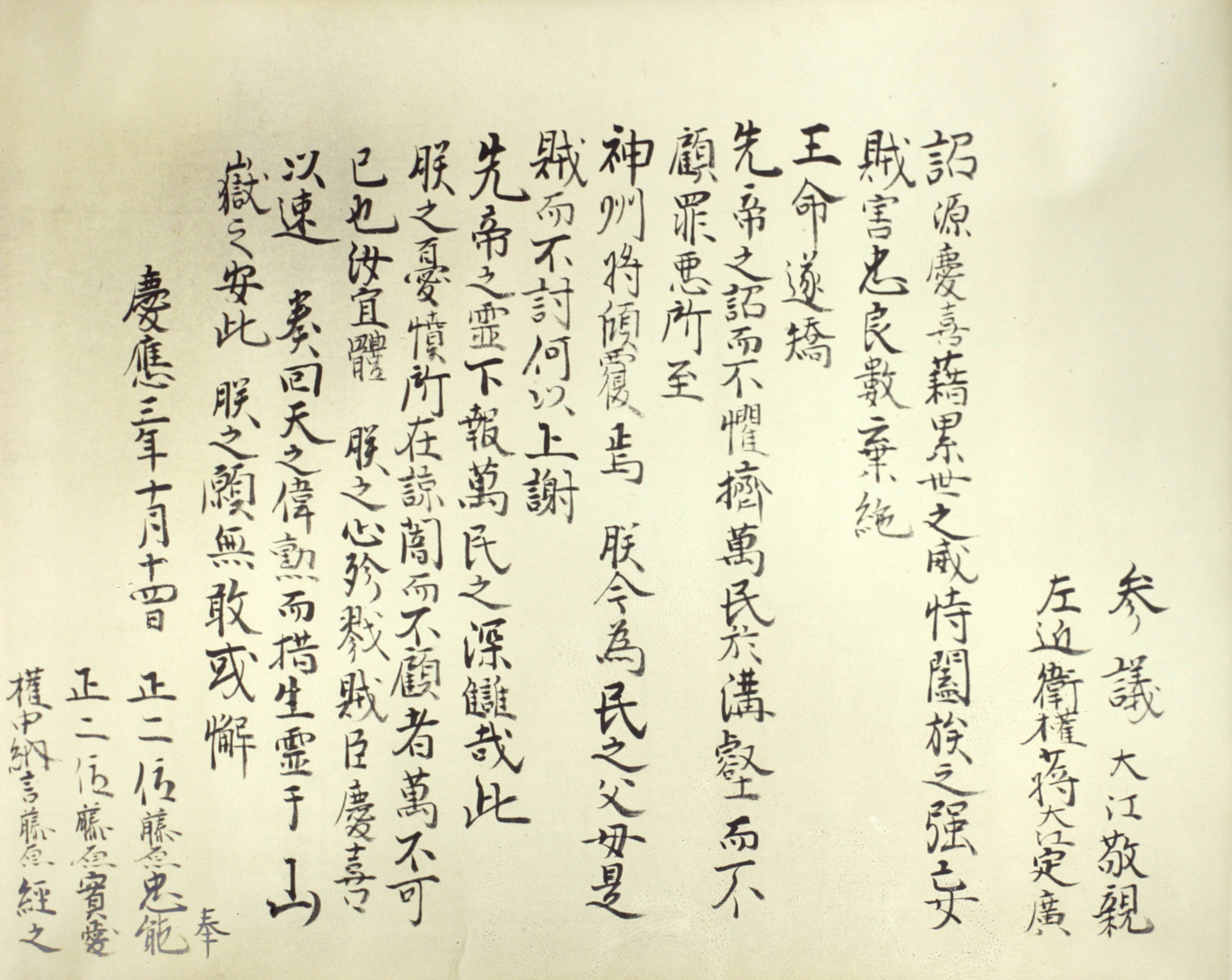 Photographic replica of the rescript, as issued on 9 November 1867 to Mōri Takachika et son fils, the original being kept at the Mori Museum, Hofu, Yamaguchi Japan